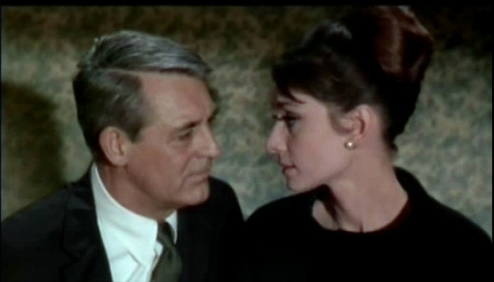 Screenshot of Cary Grant and Audrey Hepburn from the film Charade